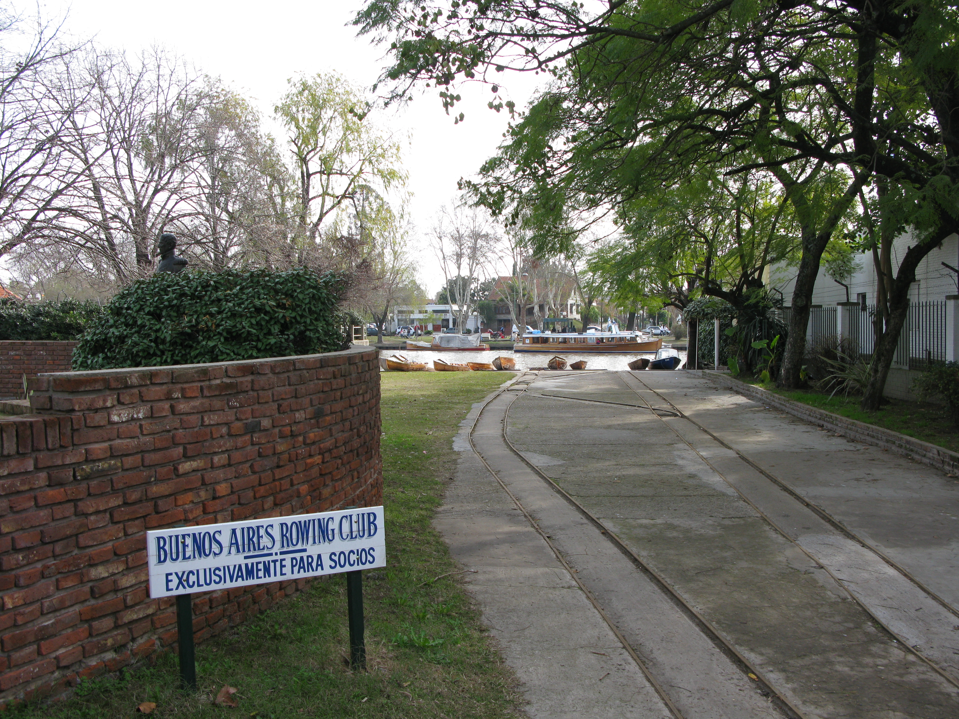 Buenos Aires Rowing Club ramp in Tigre, Buenos Aires province, Argentina.